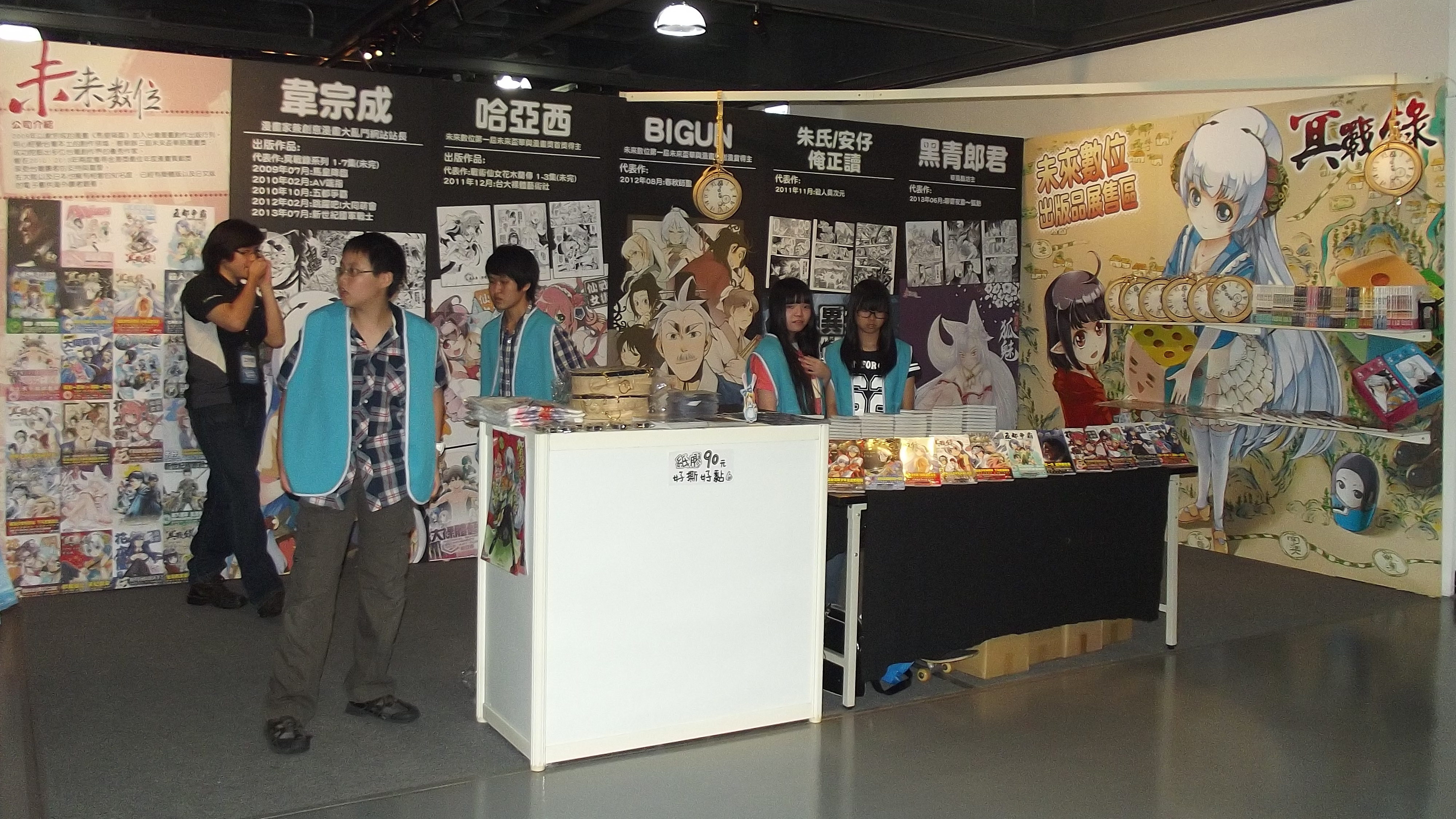 2014 Taoyuan International ACGT Fair - Showcase from Local Comic Artists of Future-Digi.